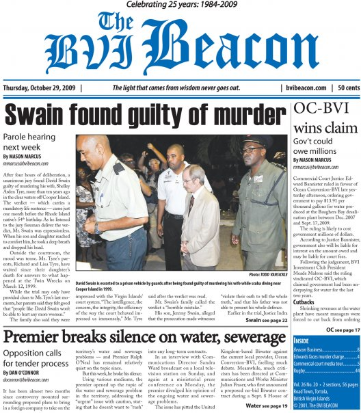 Taken of the BVI Beacon Newspaper.